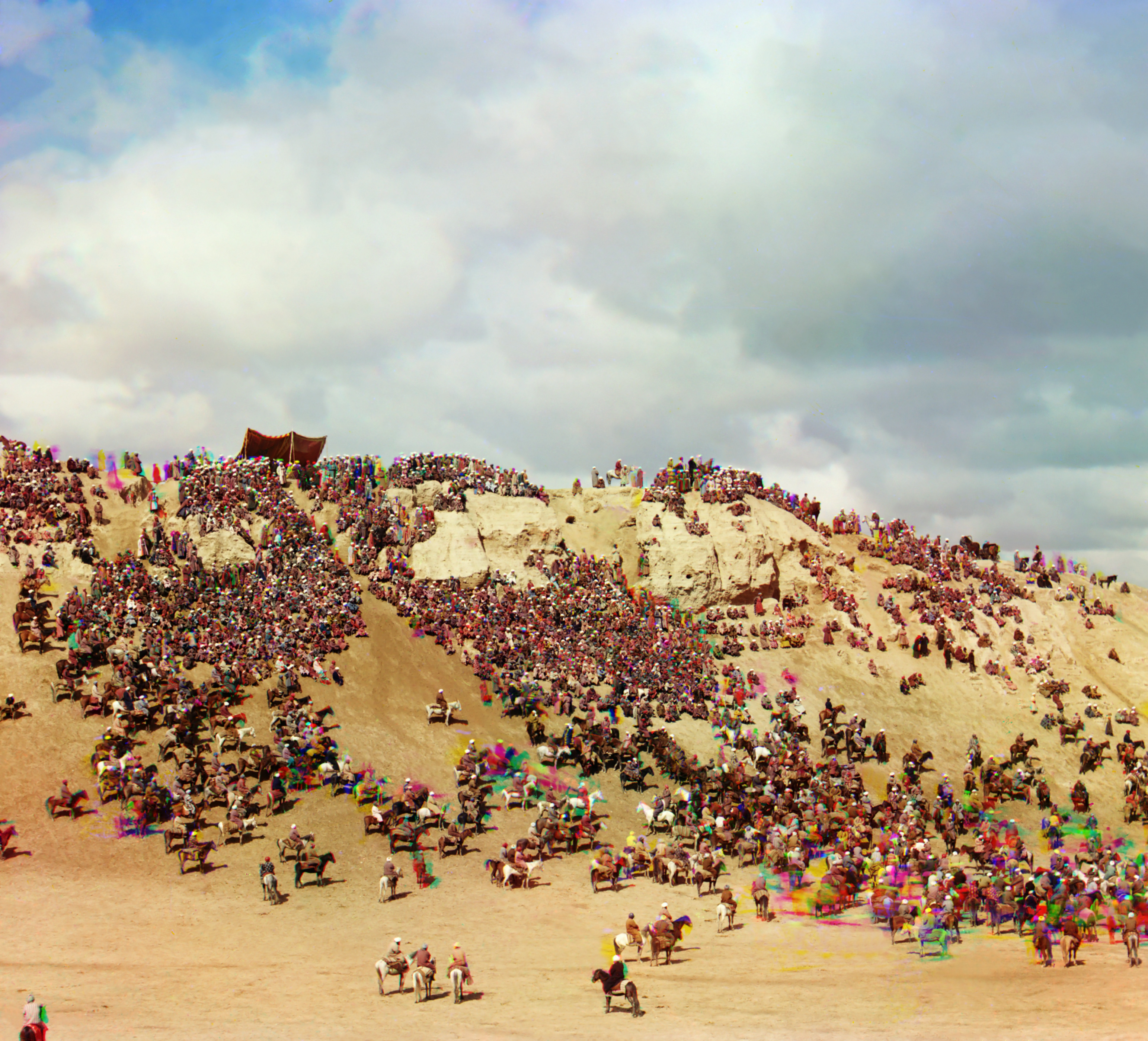 Original Description: Bayga. Samarkand. A large group of men, most on horseback, assembled on a hillside, probably for a traditional game of horsemanship called bayga.